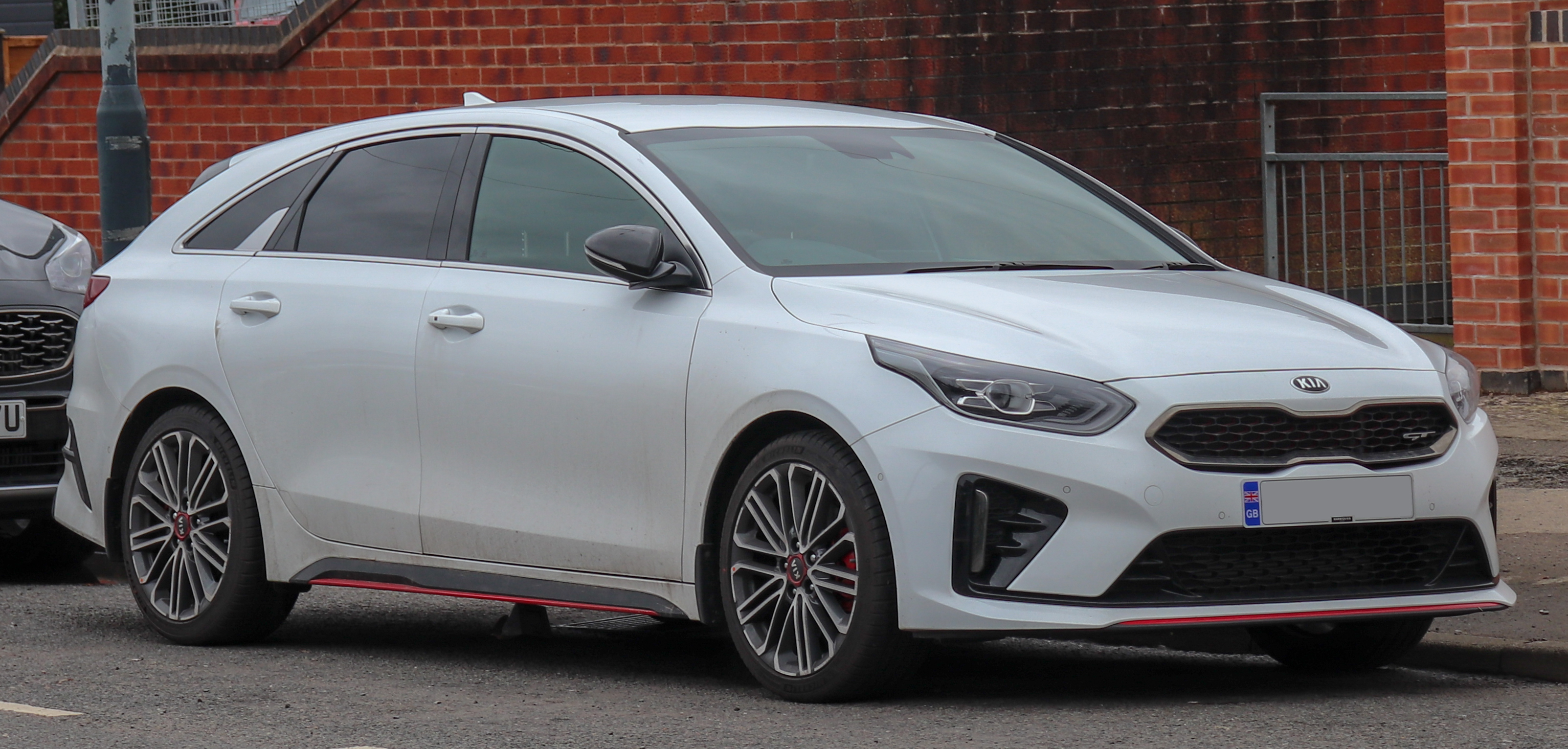 2019 Kia Proceed GT ISG S-A 1.6 Front Taken in Warwick